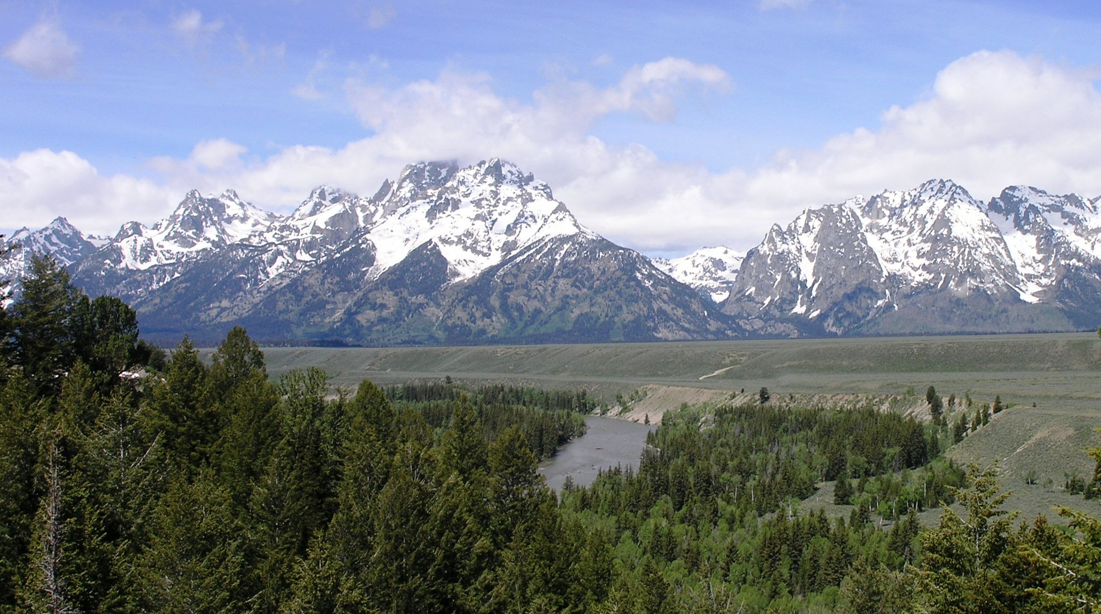 Photo in or around Grand Teton National Park